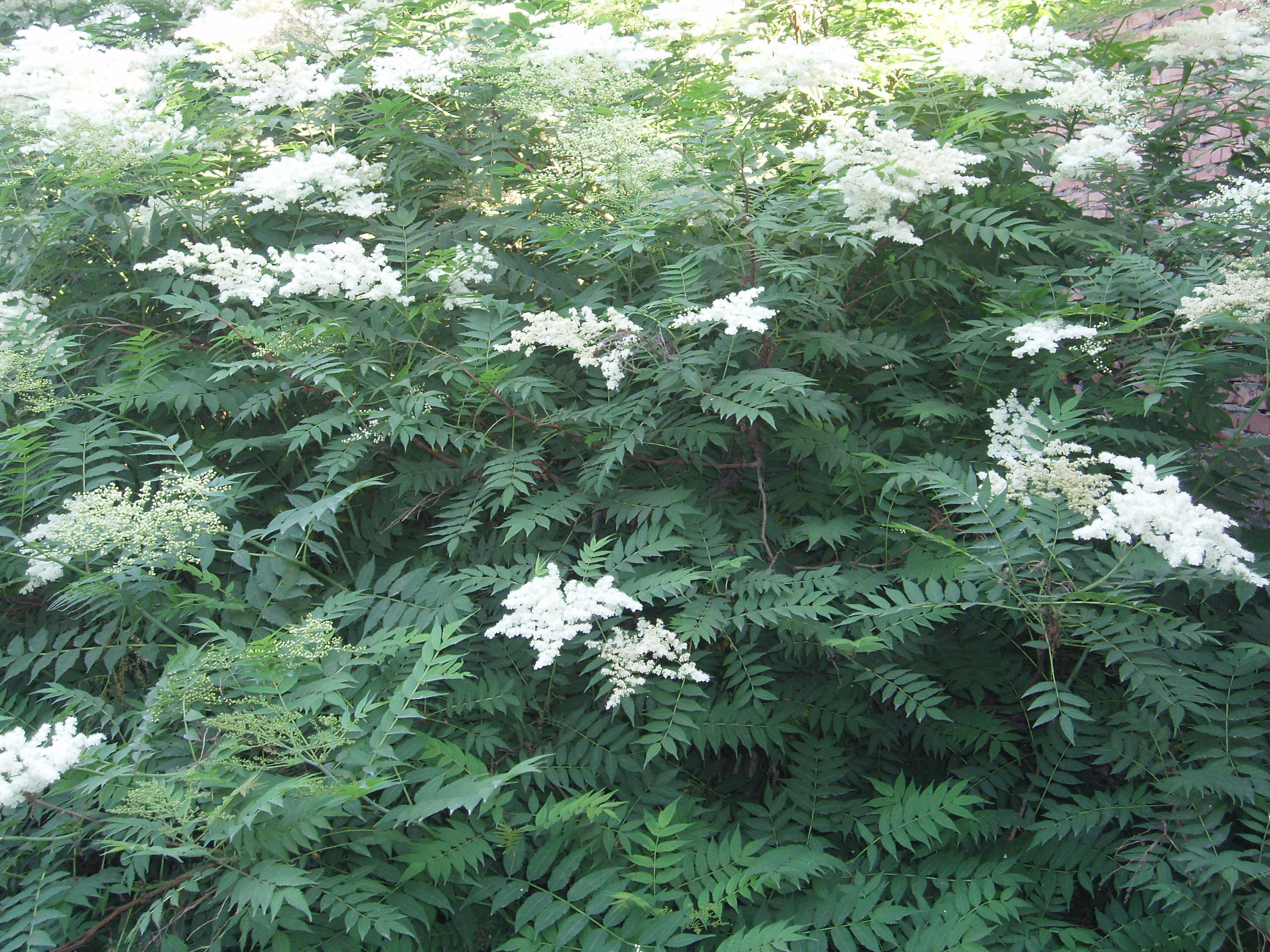 Ural false spirea flowers